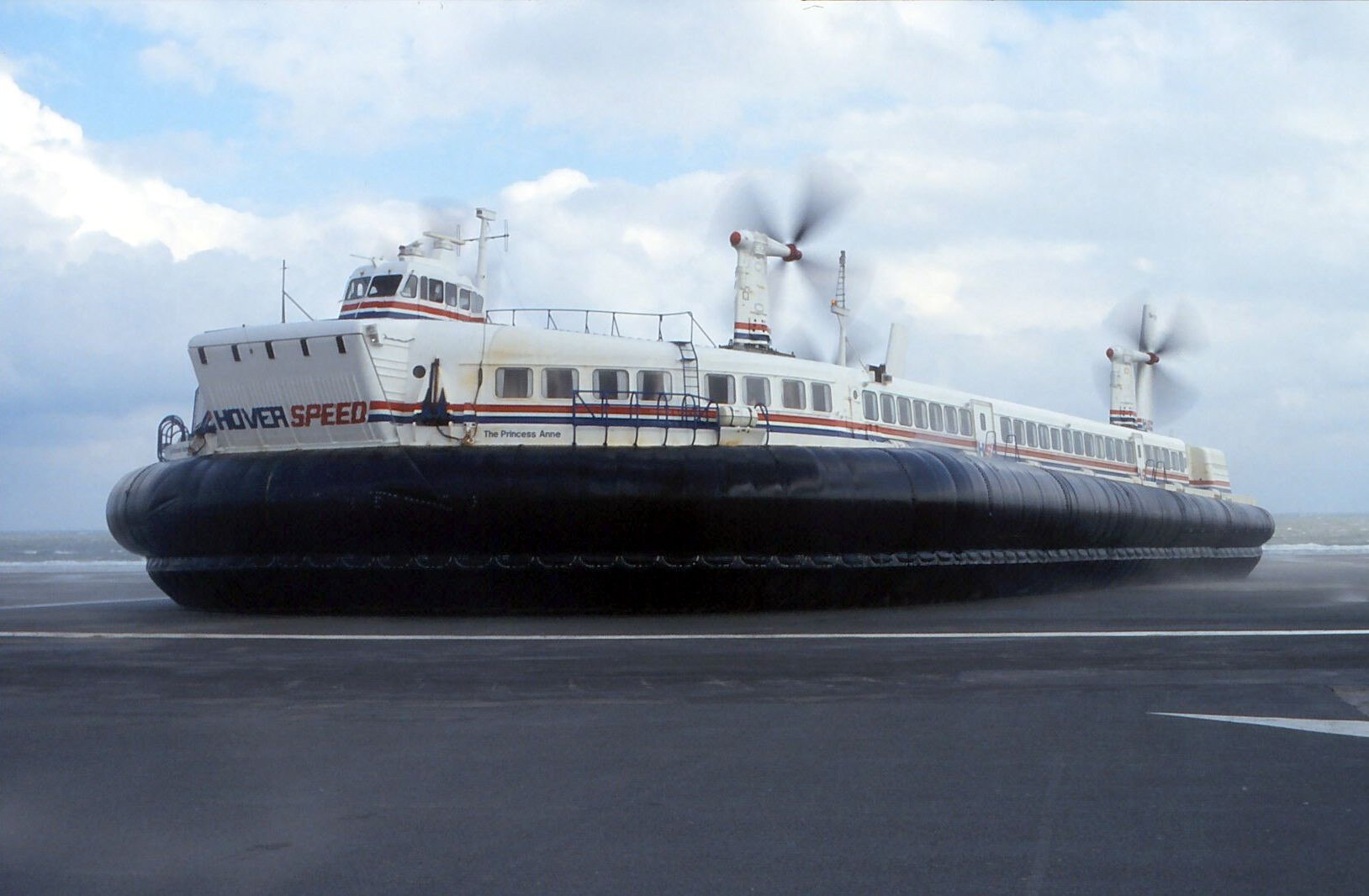 Hover Speed The Princess Anne Saunders Roe SRN 4 Mk 3 ariving at Calais